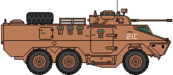 Ratel 20 jpg